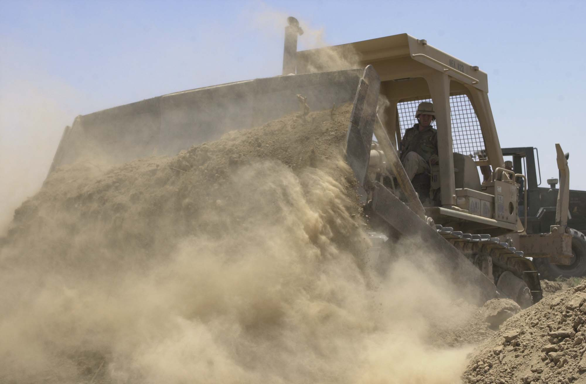 Zubaydiyah, Iraq (Jun. 12, 2003) -- An Equipment Operator assigned to Naval Mobile Construction Battalion One Three Three (NMCB-133) works to build a protective barrier around Camp Bollinger with a D-7 bulldozer to protect the Seabees from small arms fire. NMCB-133 is deployed in the area to build a Mabey-Johnson bridge to replace one that was destroyed during Operation Iraqi Freedom, while providing construction support to adjacent units and assisting in humanitarian efforts to rebuild the country of Iraq. U.S. Navy photo by Photographer’s Mate 2nd Class Jacob A. Johnson. (RELEASED)